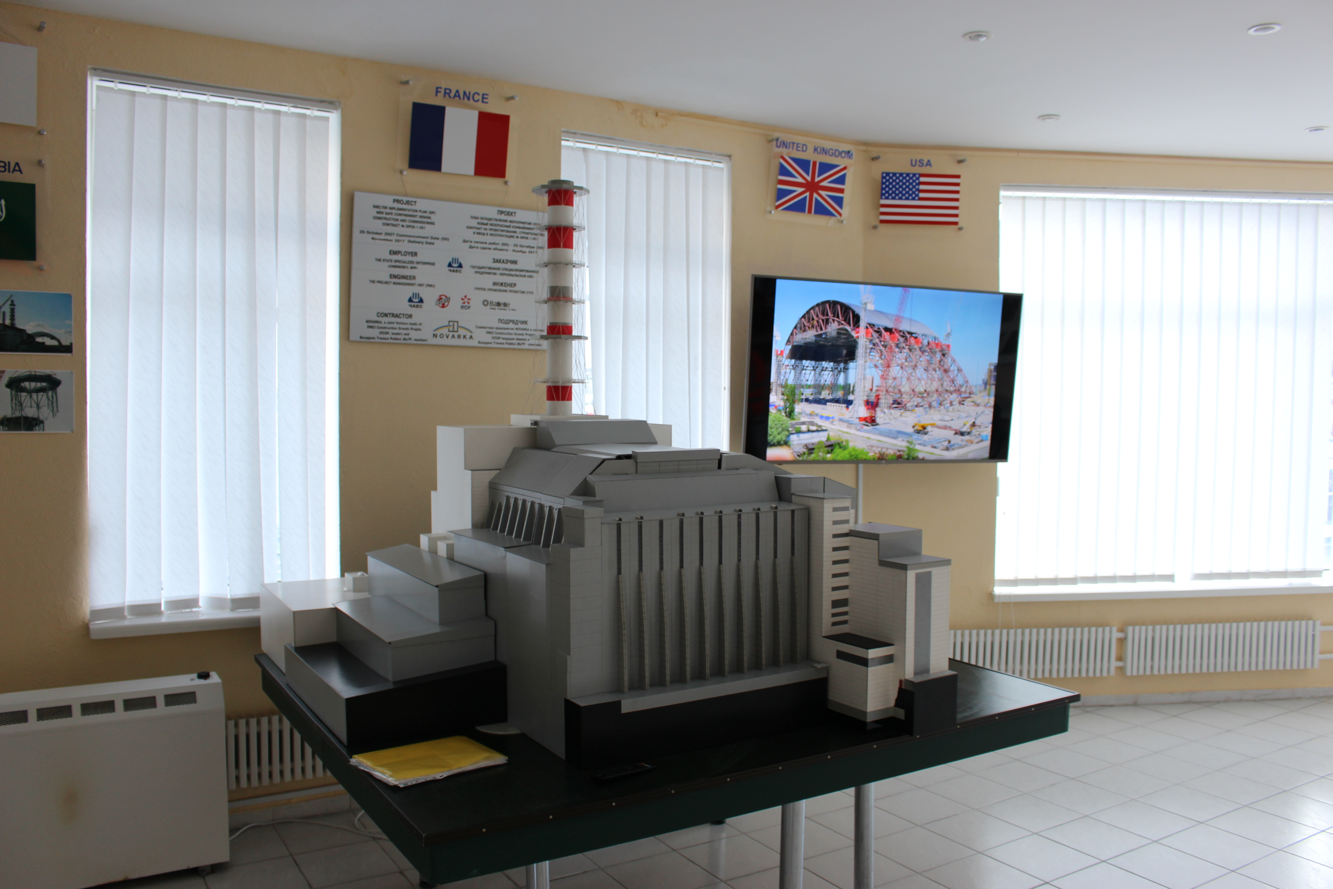 Scale model of the Sarcophagus over Chernobyl Reactor 4 on display in the Visitor Centre of the New Safe Confinement building